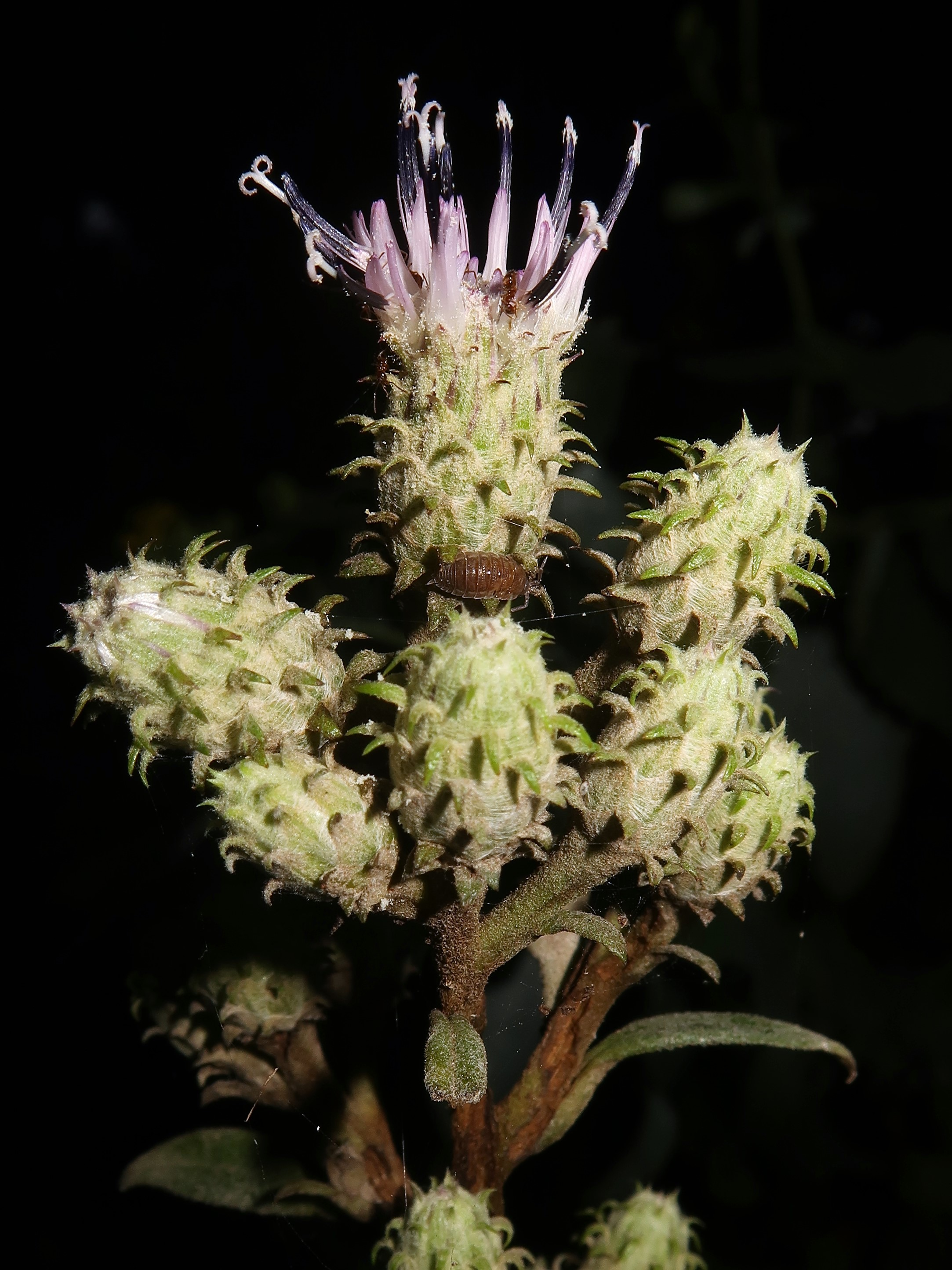 Saussurea hokurokuensis, Kashiwazaki city, Niigata pref., Japan